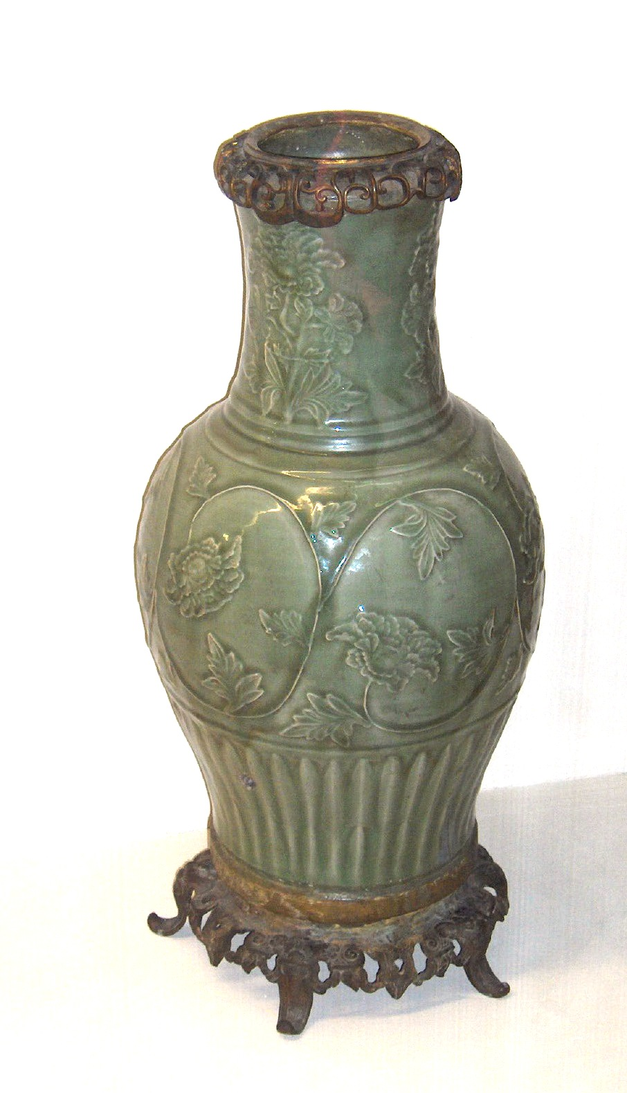 Kitchen; Longquan celadon from the collection of Chinese celadon; Topkapı Palace, Istanbul, Turkey